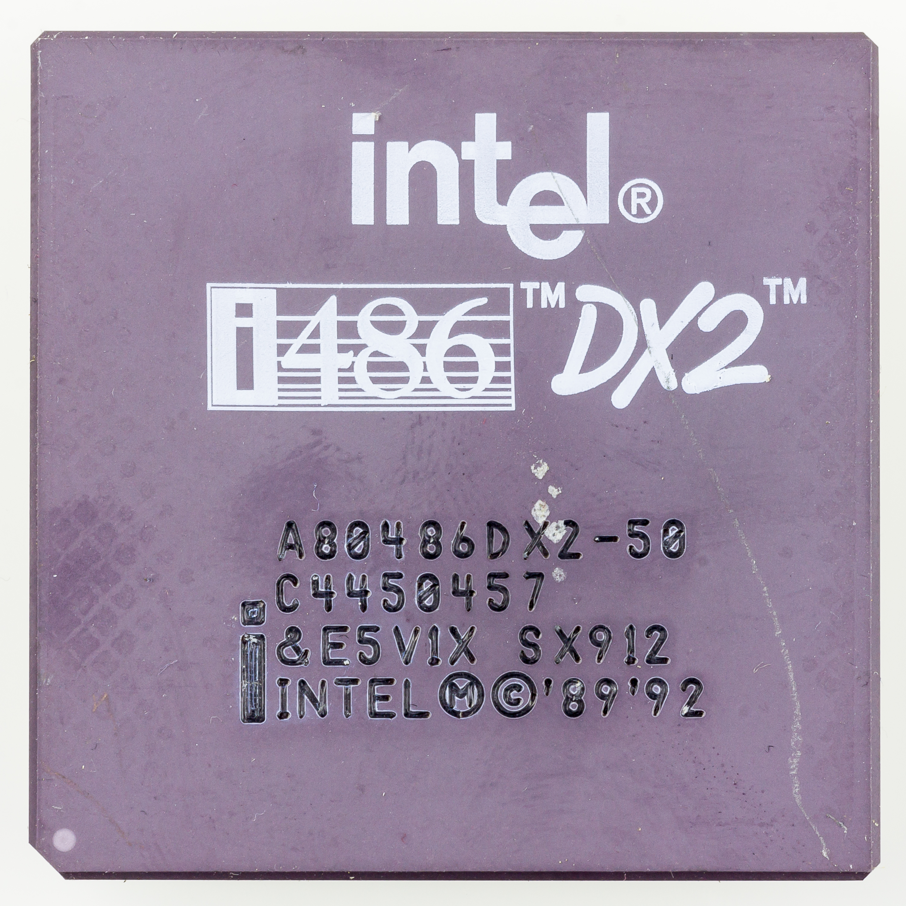 Laptop Acrobat Model NBD 486C, Type DXh2 - processor Intel i486 DX2